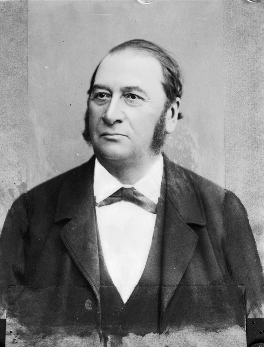 Axel Winge, businessman and member of the Norwegian parliament (conservative)